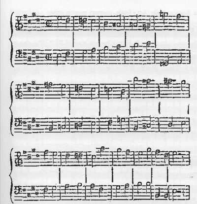 Extract from Rossini's 'Moise' published in Le Gl;obe", 31 March 1827